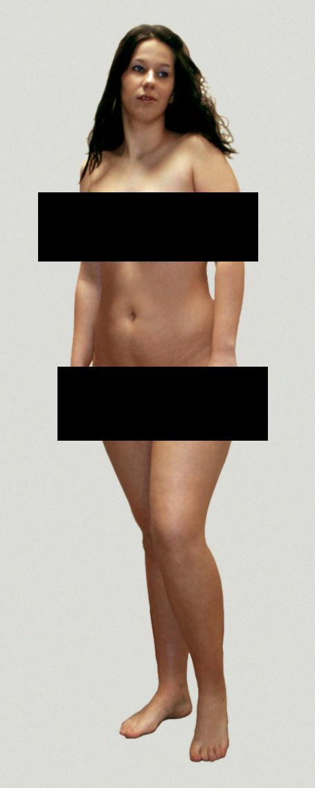 Picture of a woman for biology articles. The model disclaims rights on this photo and agrees to publication under the GFDL.